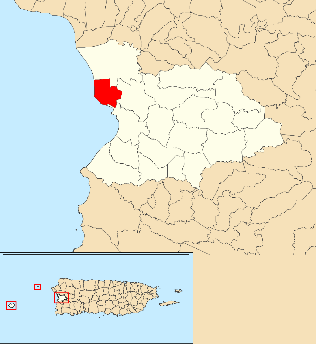 Algarrobos, Mayagüez, Puerto Rico locator map